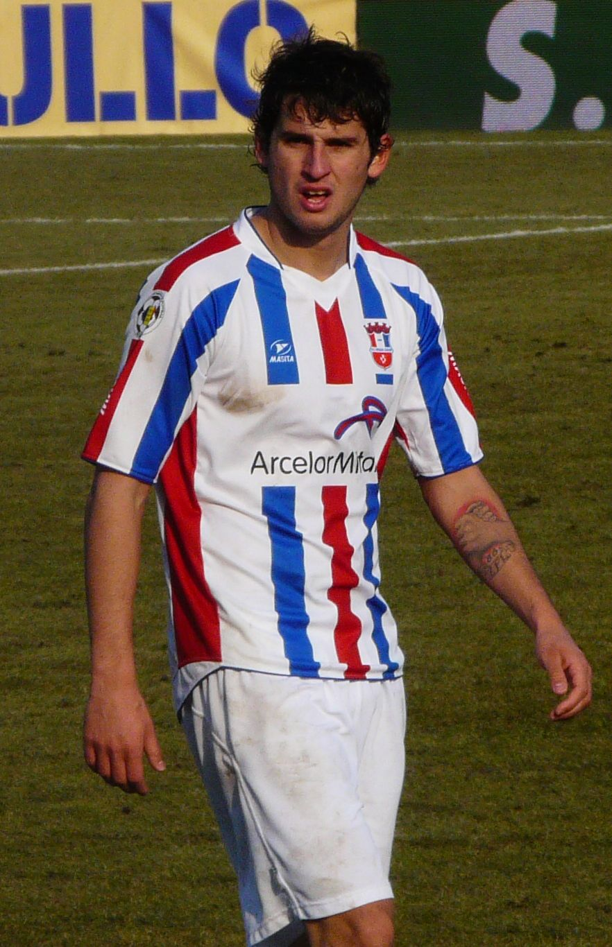 Milan Perendija in March 2011, during Otelul - Rapid